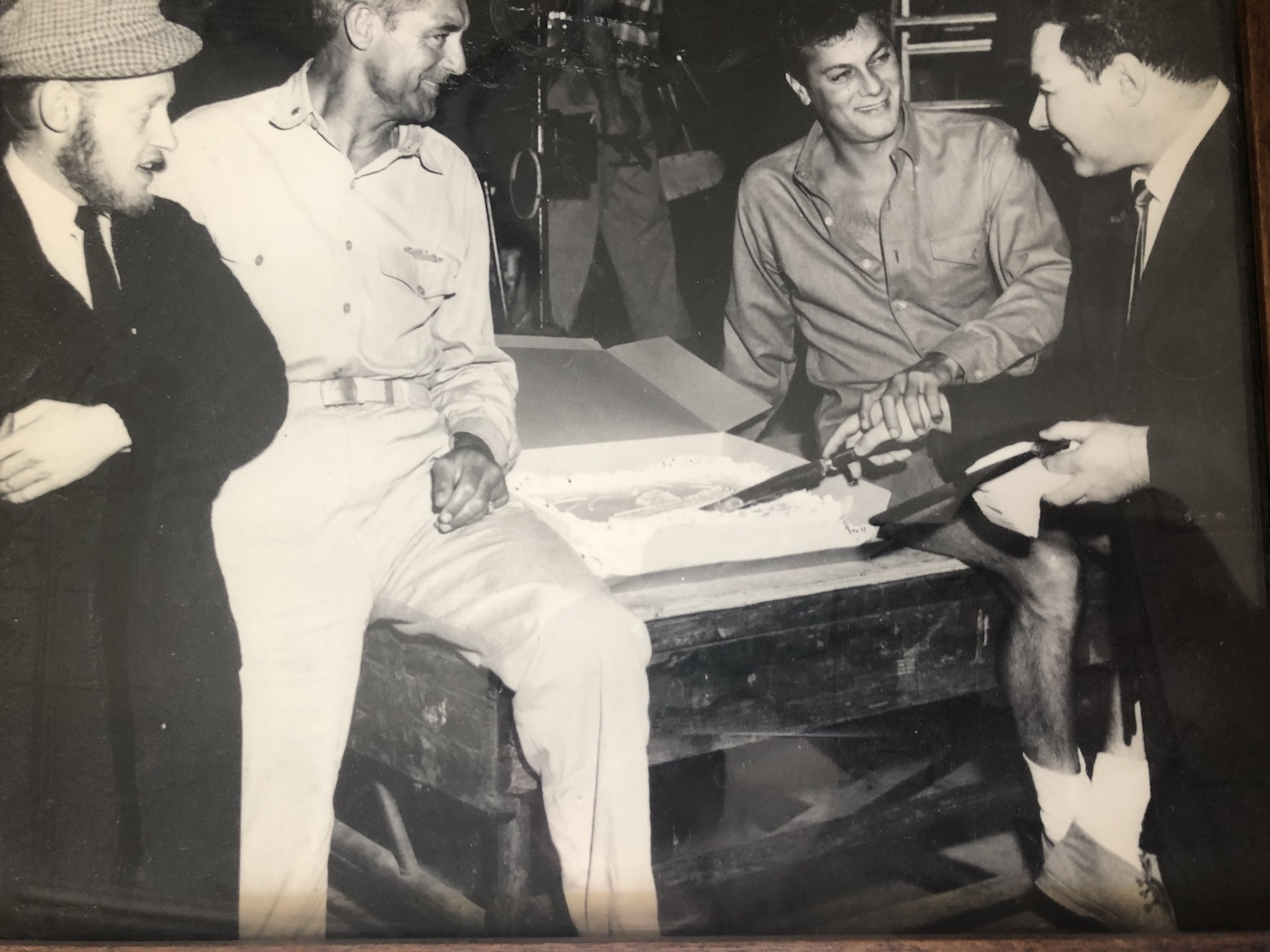 From left to right, Stanley Shapiro, Cary Grant, Tony Curtis, Maurice Richlin. On the set of the film, Operation Petticoat.